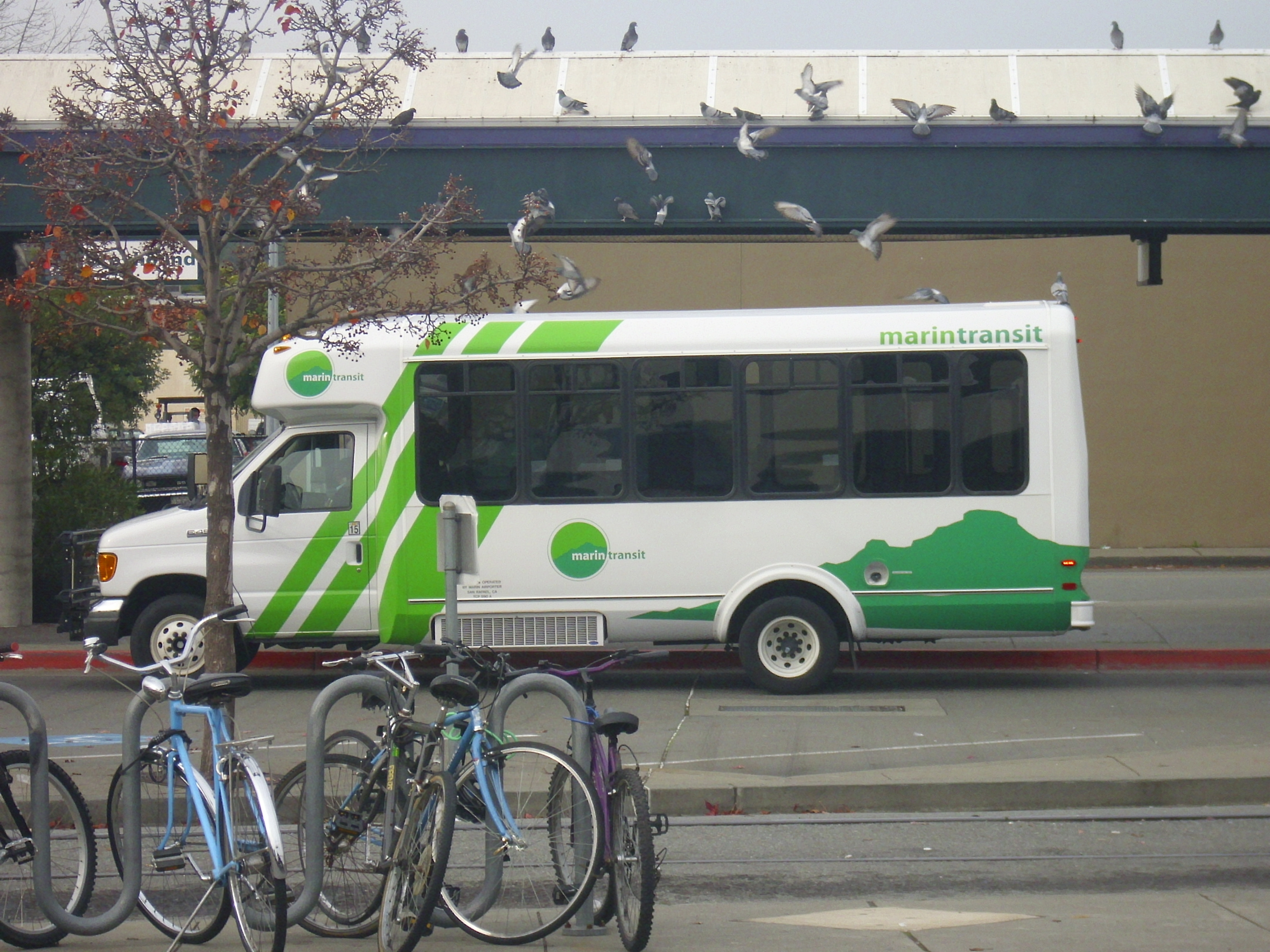 A Marin Transit shuttle van operating as a Route 233 to Santa Venetia (a district in northeast San Rafael) at the San Rafael Transit Center, San Rafael, CA.